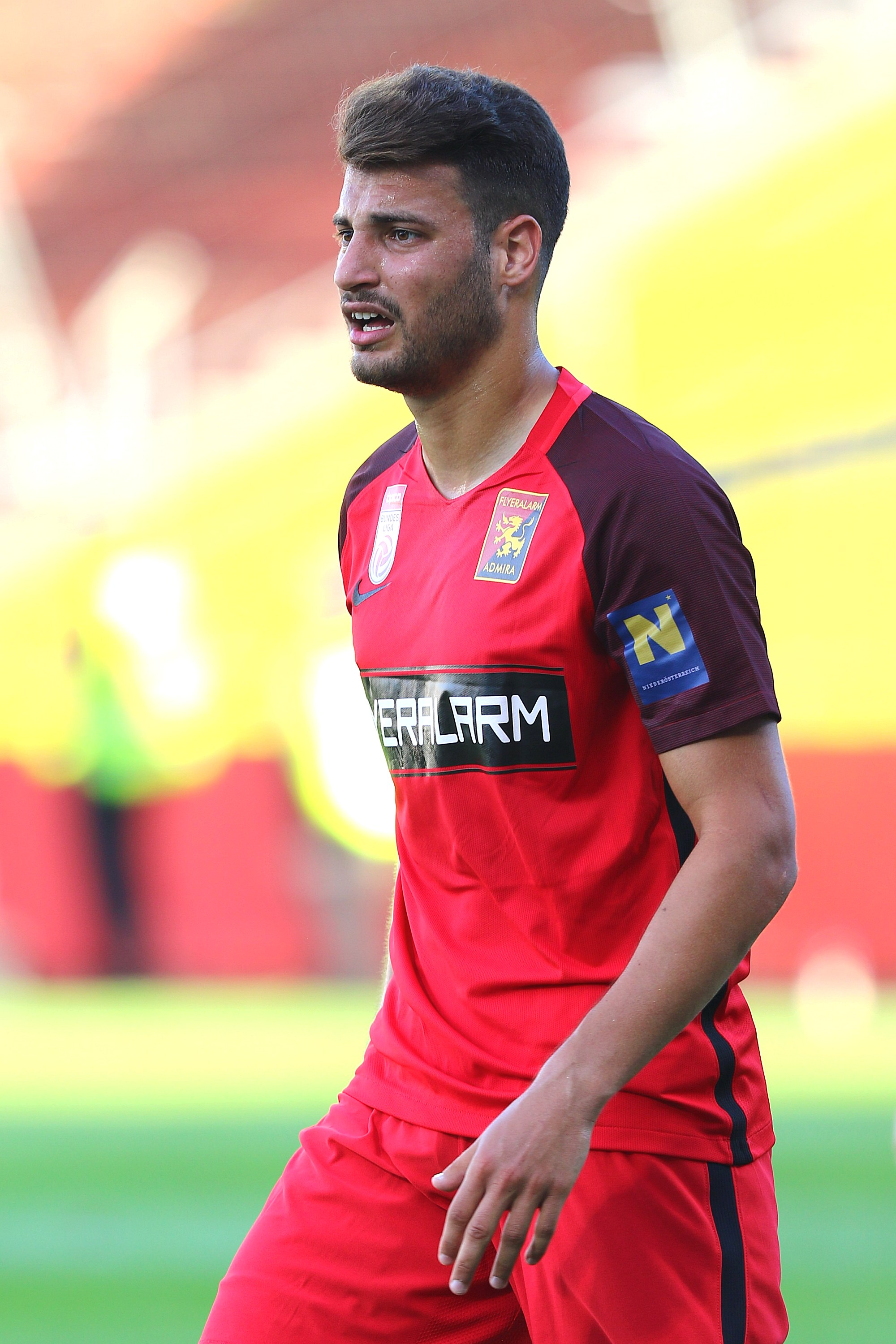 Championshipmatch of the Austrian Bundesliga 2018–19 FC Admira Wacker Mödling (red shirts) vs. LASK Linz (black-white shirts) 0-1 (0-0) at 2018-08-12 in the Bundesstadion Südstadt in Maria Enzersdorf. – The photo shows . Sinan Bakis